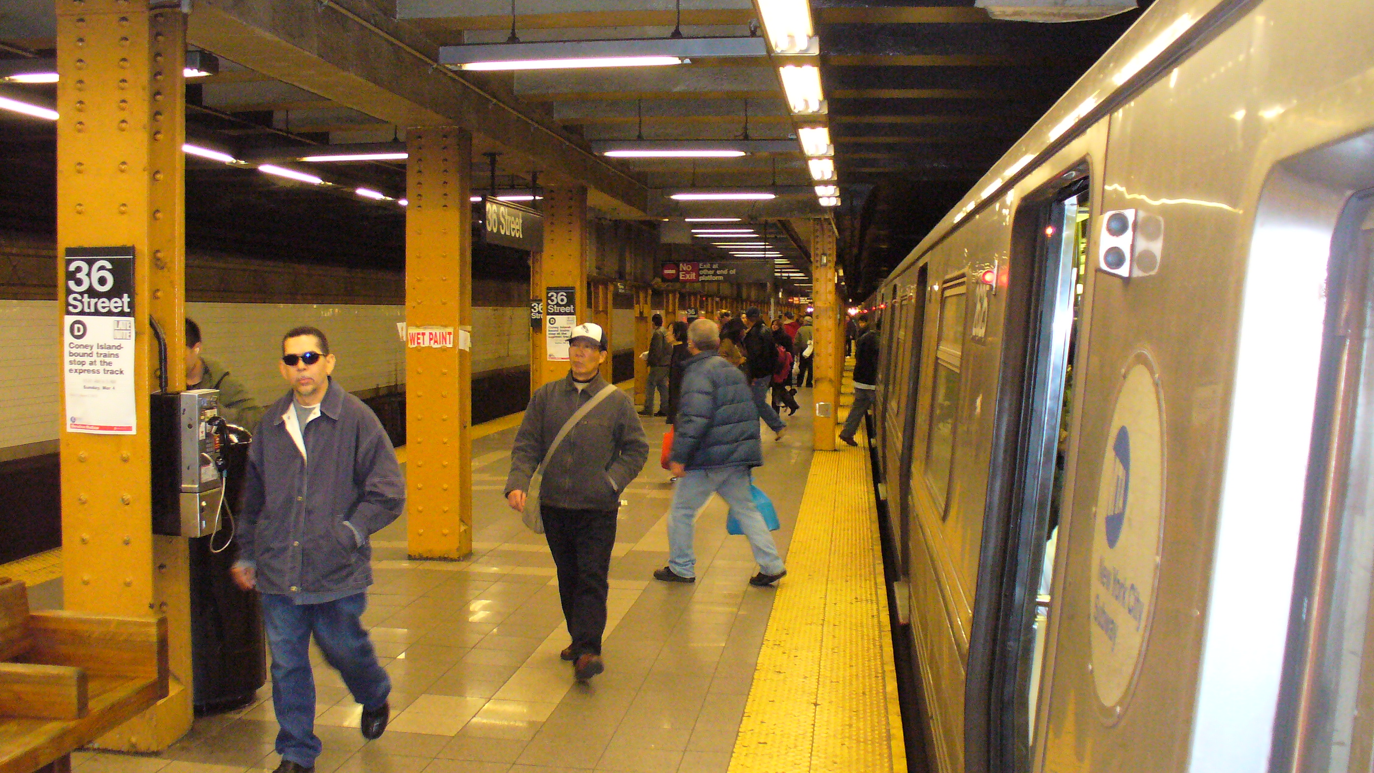 36th Street D Line NYC Subway Station by David Shankbone